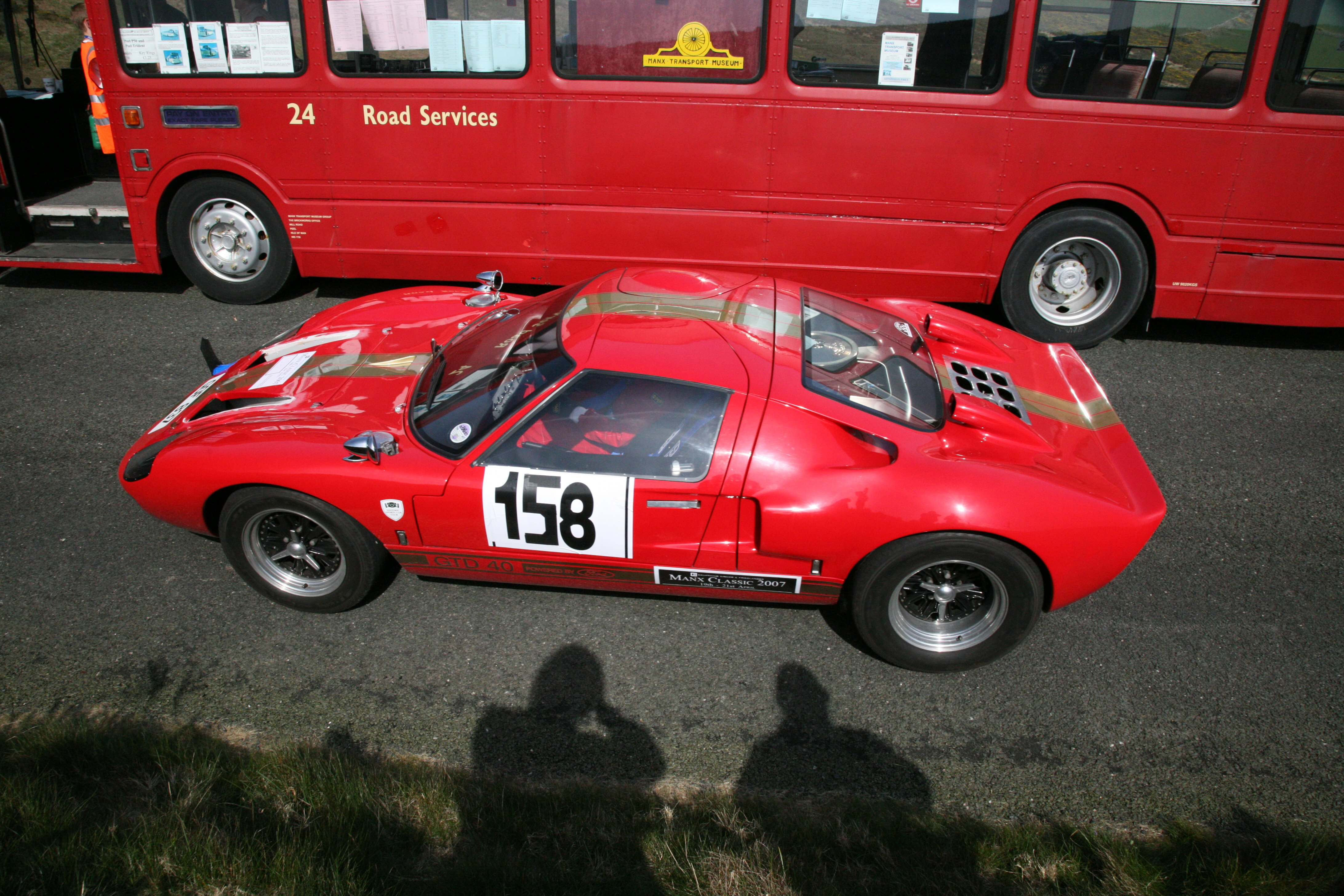 dunno what it is but i love it it's low and nasty ;-)